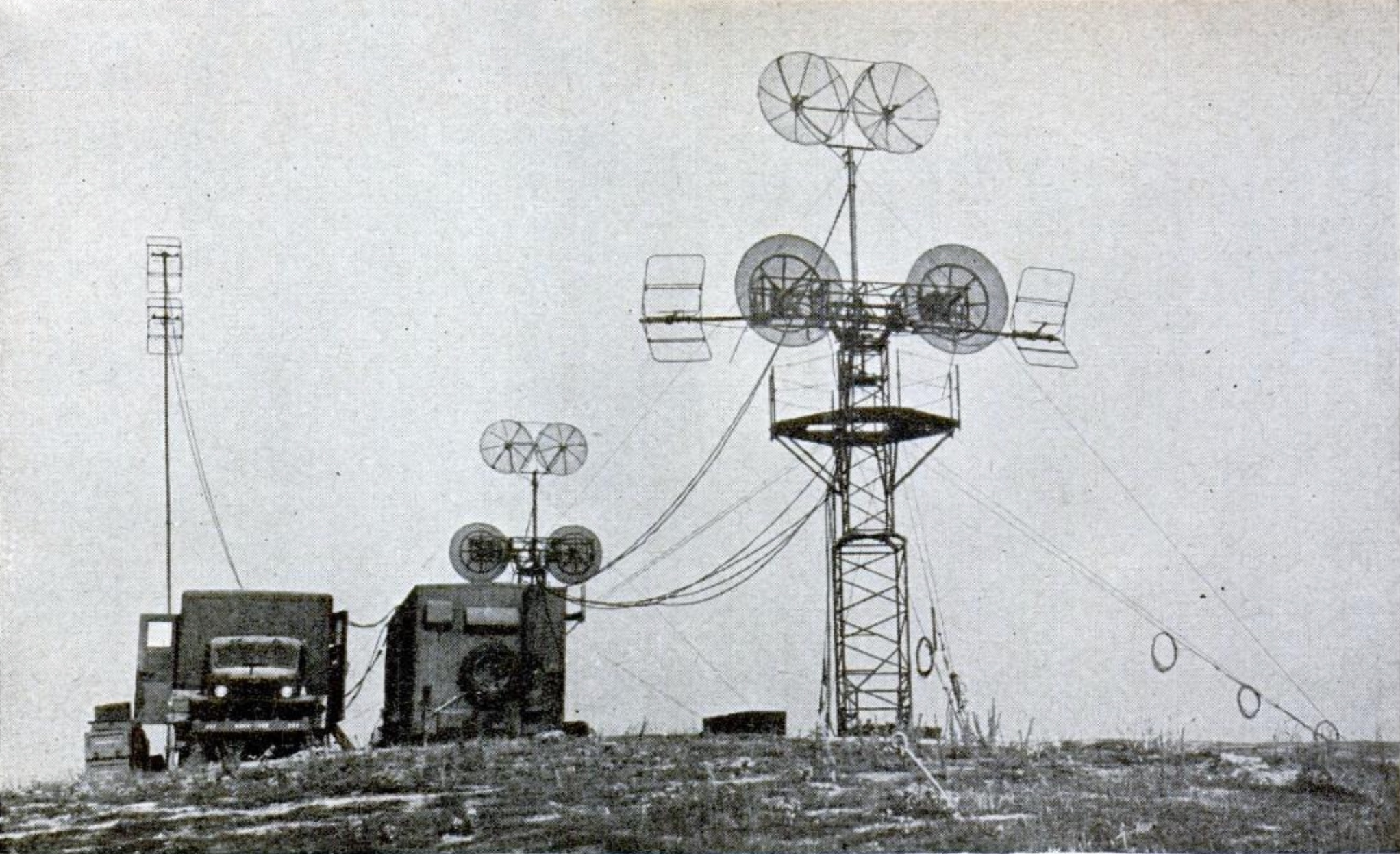 A US Army Signal Corps transportable microwave relay station from 1945 using AN/TRC-1, 5, 6, and 8 systems. Each pair of identical antennas is used for a link with another station up to 40 miles away, which can carry multiple telephone calls. Two antennas are required for bidirectional communication; one for transmitting and one for receiving. Microwave technology advanced during World War 2 due to the development of radar, and toward the end of the war the US Army began using microwave communication systems in the European theater. These military systems were some of the first practical microwave relay systems and presaged development of the great transcontinental commercial microwave relay networks in the 1950s. The systems shown here were: AN/TRC-1, 70-100 MHz FM system carries 4 telephone circuits AN/TRC-5, 230-250 MHz FM system carries 4 phone circuits AN/TRC-6, 4.3-4.9 GHz TDM system carries 8 phone circuits AN/TRC-8, 1.3-1.45 GHz TDM system carries 8 phone circuits Alterations to image: cloned out text graphics overlaying upper right corner of image.